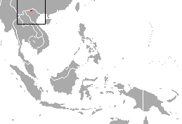 Van Sung's Shrew (Chodsigoa caovansunga) range